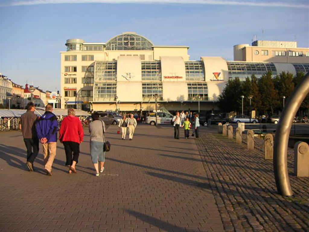 Photo: Bengt Olof ÅRADSSON